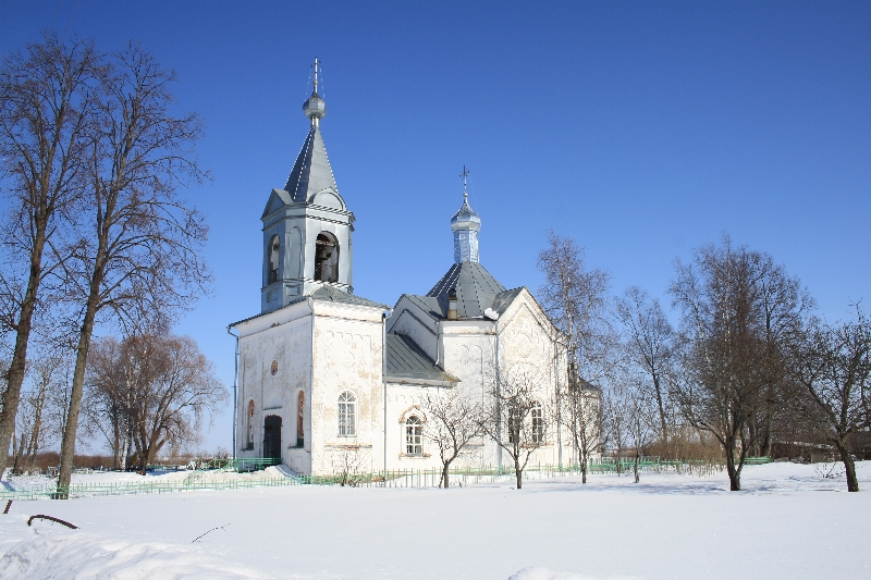 The Churche of Vassily the Great in Vasilievskoye village. Novgorodsky district, Novgorod oblast, Russia